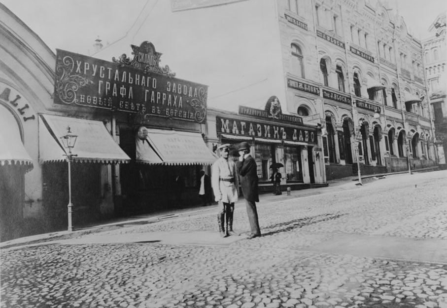 Frank Carpenter talking to a police officer(?) on a street in a business district, Russia